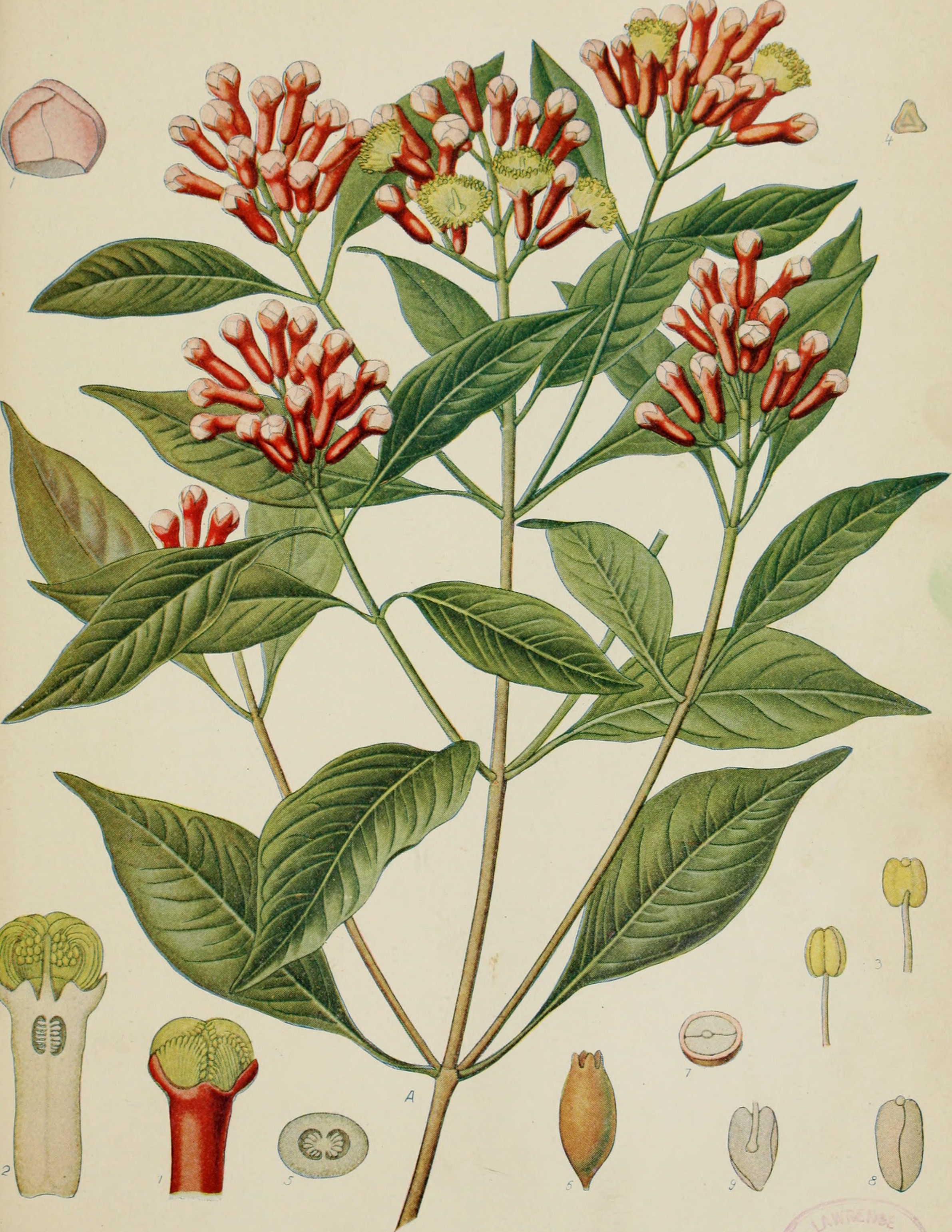 Title: Birds & nature magazine Year: 1896 (1890s) Authors: Marble, Charles C; Higley, William Kerr, 1860-1908 Subjects: Birds; Natural history; Natural history Publisher: Chicago, nature study publishing company (etc. ) Text Appearing Before Image: ' Text Appearing After Image: FROM KCE-HLER'S MEOlClNAL-PFLAN CLOVE.